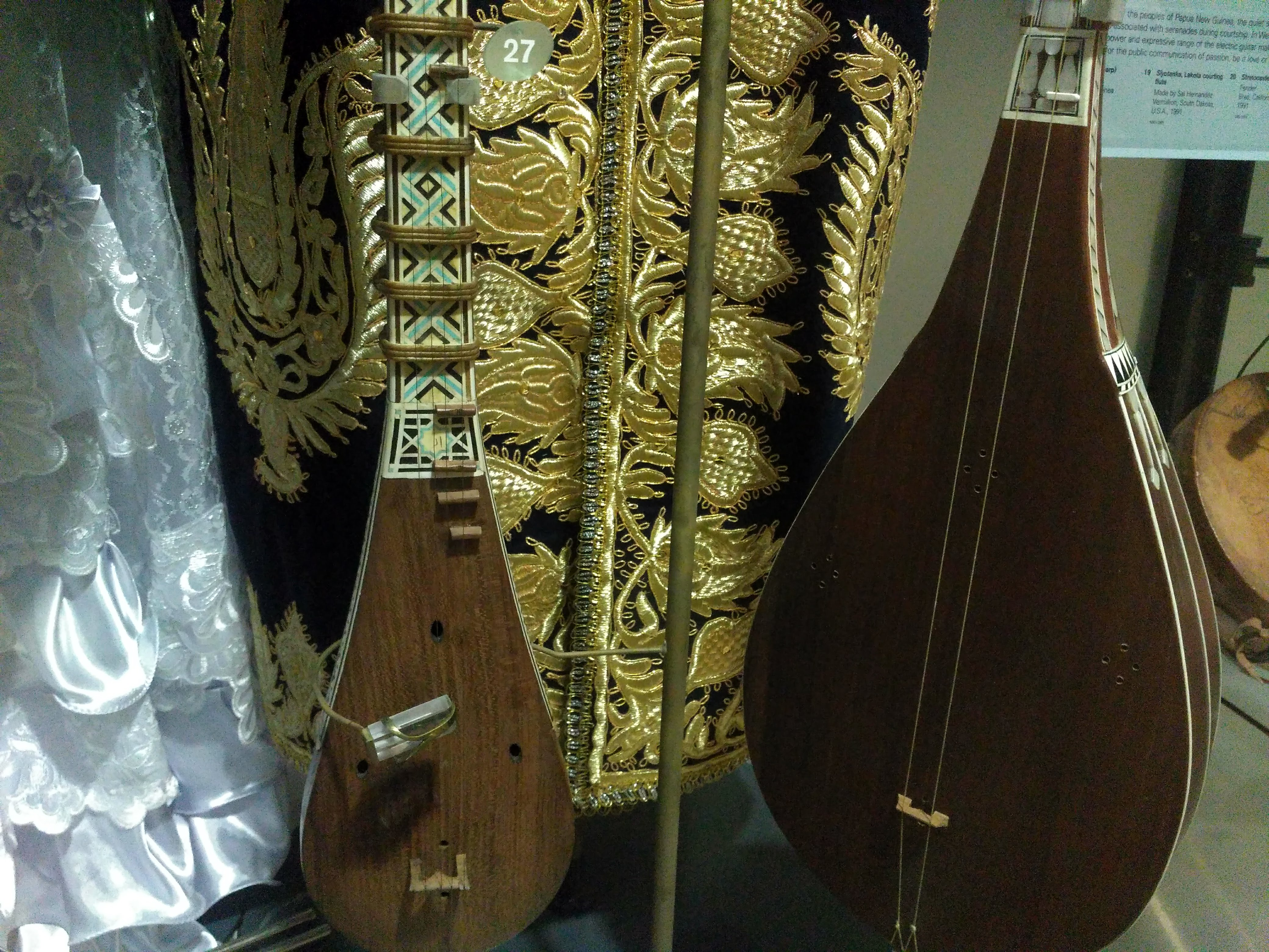 A set of images of musical instruments from the Horniman Museum in London, UK. Taken by Jo Dusepo 24/5/19